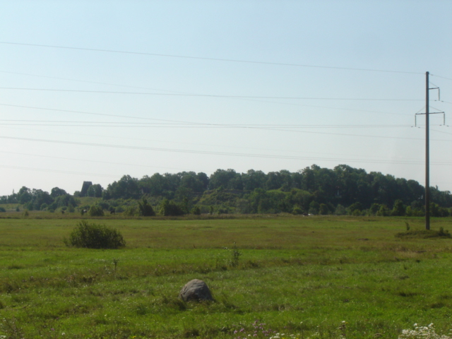 The hill of the castle of Lihula.